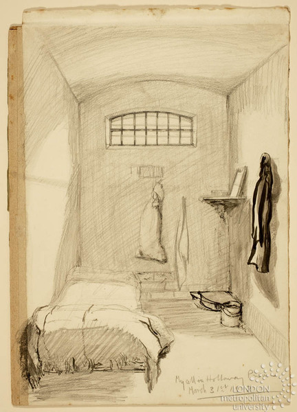 The cell of artist and militant suffragette Katie Edith Gliddon (1883-1967) in Holloway Prison drawn by her in 1912